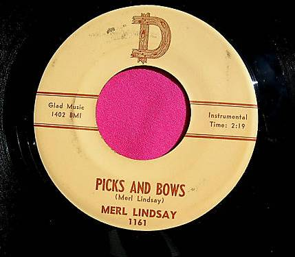 Picks and Bows by Merl Lindsay, D 1960.